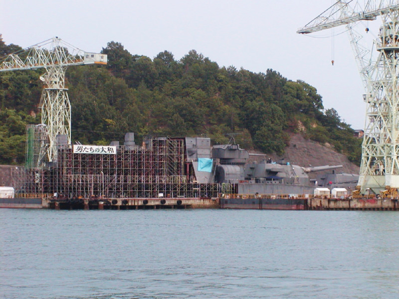 Copy of battleship Yamato used in the film "Otoko-tachi no Yamato" 2005